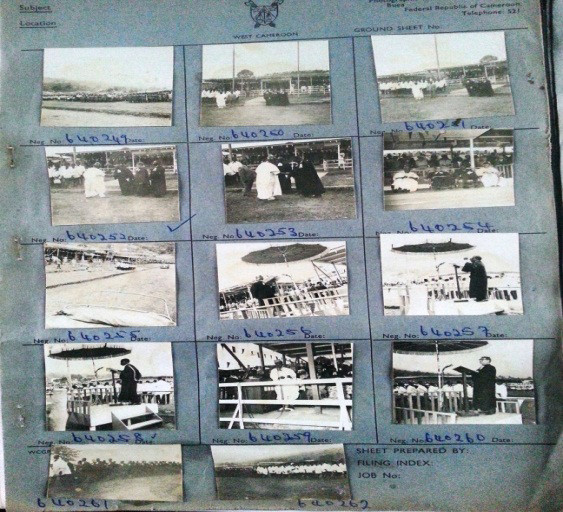 Proof sheet held in the Cameroon Press Photo Archive in Buea. Author's caption: "Sample proof sheets are carefully conserved in special acid free paper and further protected in office folders and stored in boxes."